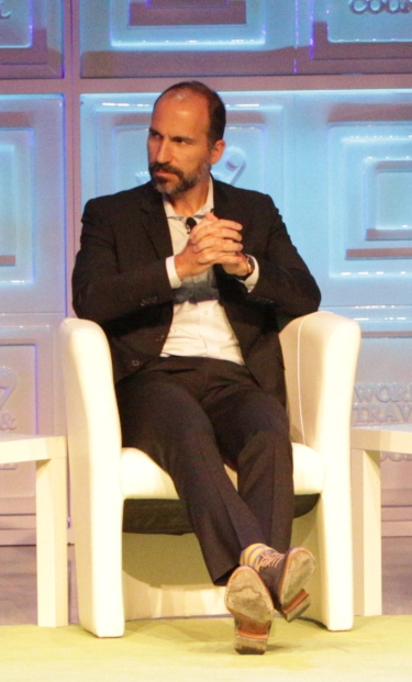 WTTC Global Summit 2015 - Dara Khosrowshahi, President & CEO, Expedia Inc